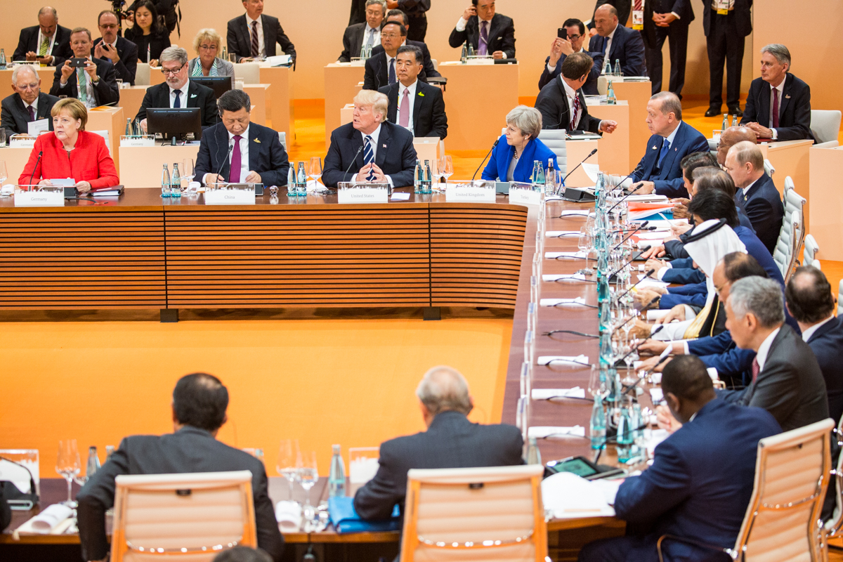 The G20 Summit working lunch | July 7, 2017 (Official White House Photo by Shealah Craighead)